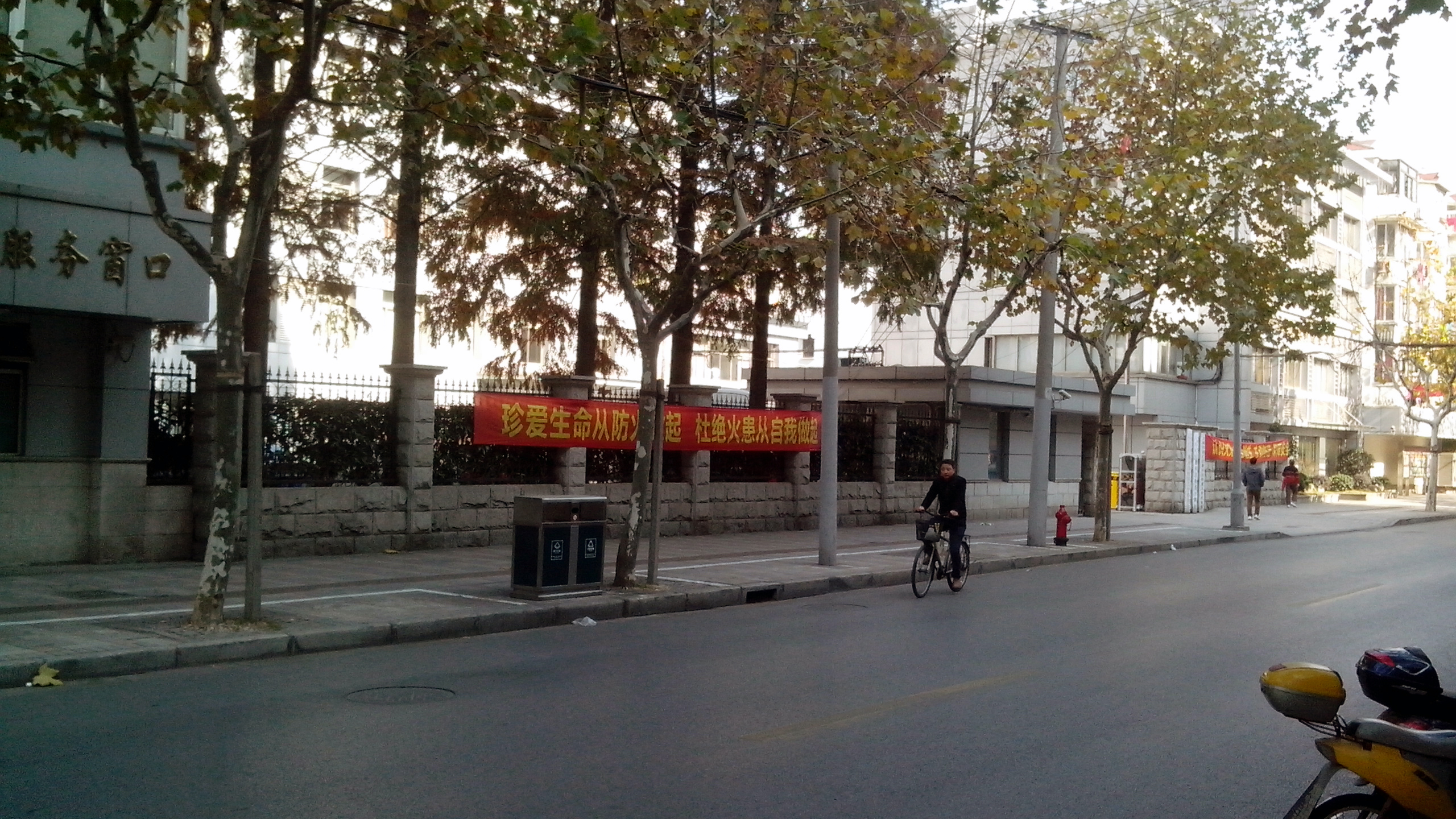 street view of caohejing Subdistrict shanghai